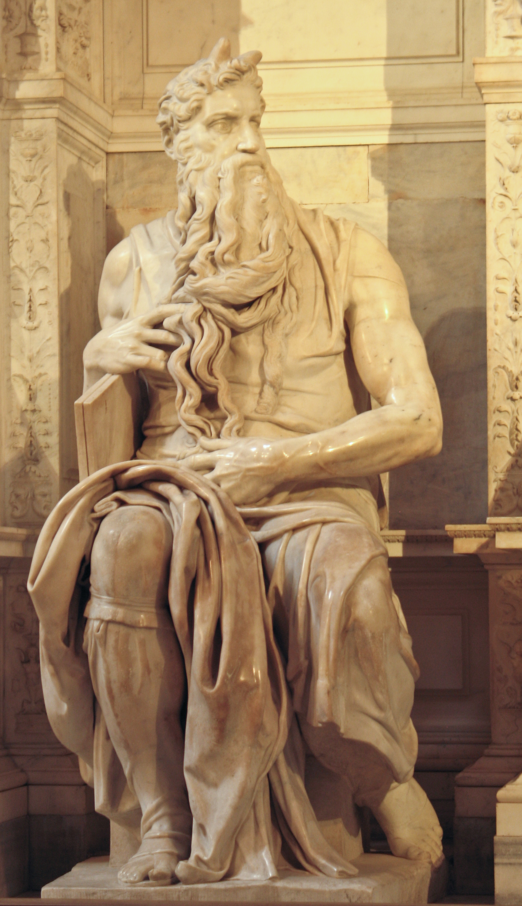 Michelangelo Buonarroti's Moses in Basilica di San Pietro in Vincoli, Rome, Italy